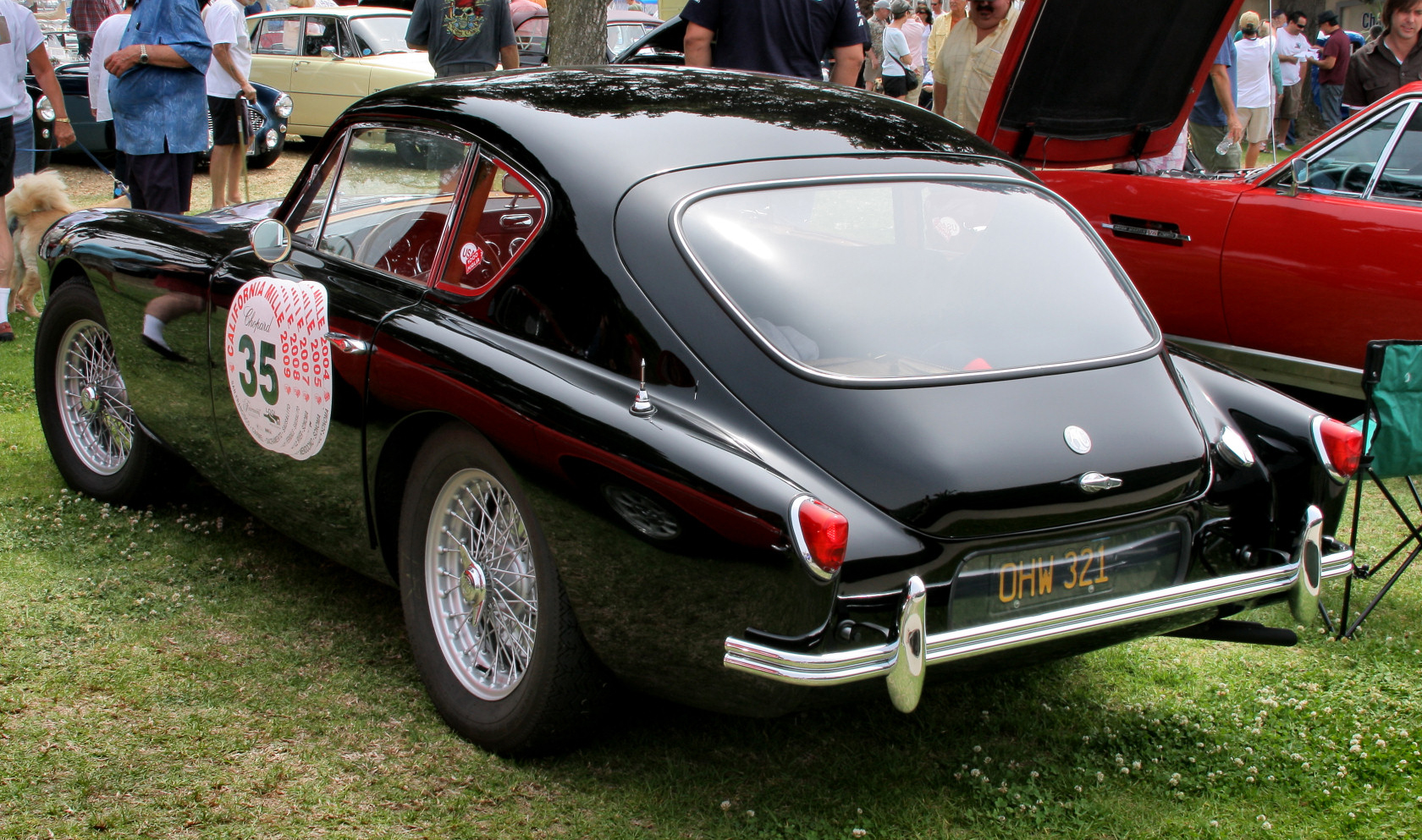 Bristol engined AC Aceca coupé (1957) at British Marques - Oxnard, CA, Aug 9, 2009